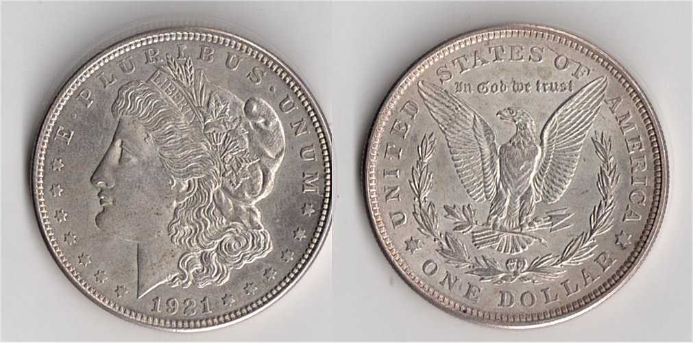 1921 Morgan Silver Dollar